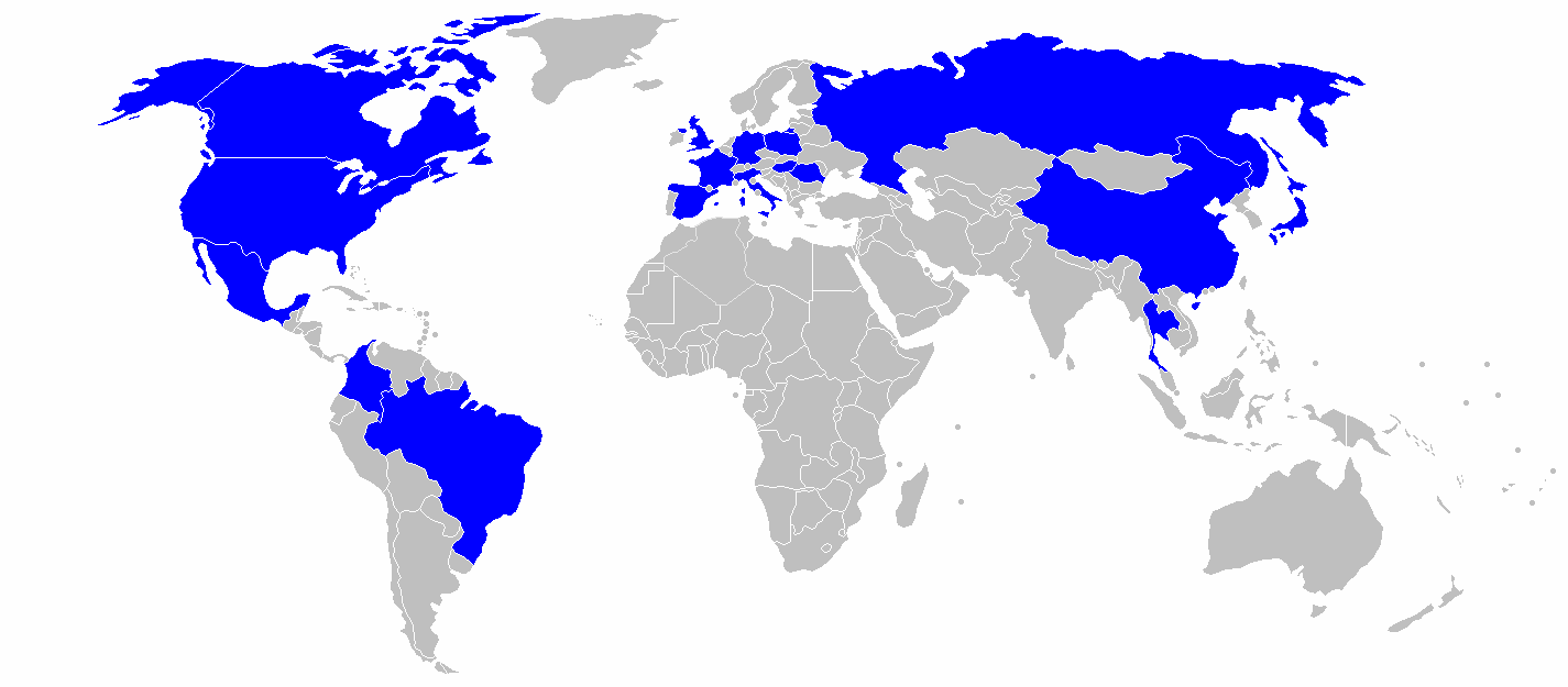 World locations of Michelin factories